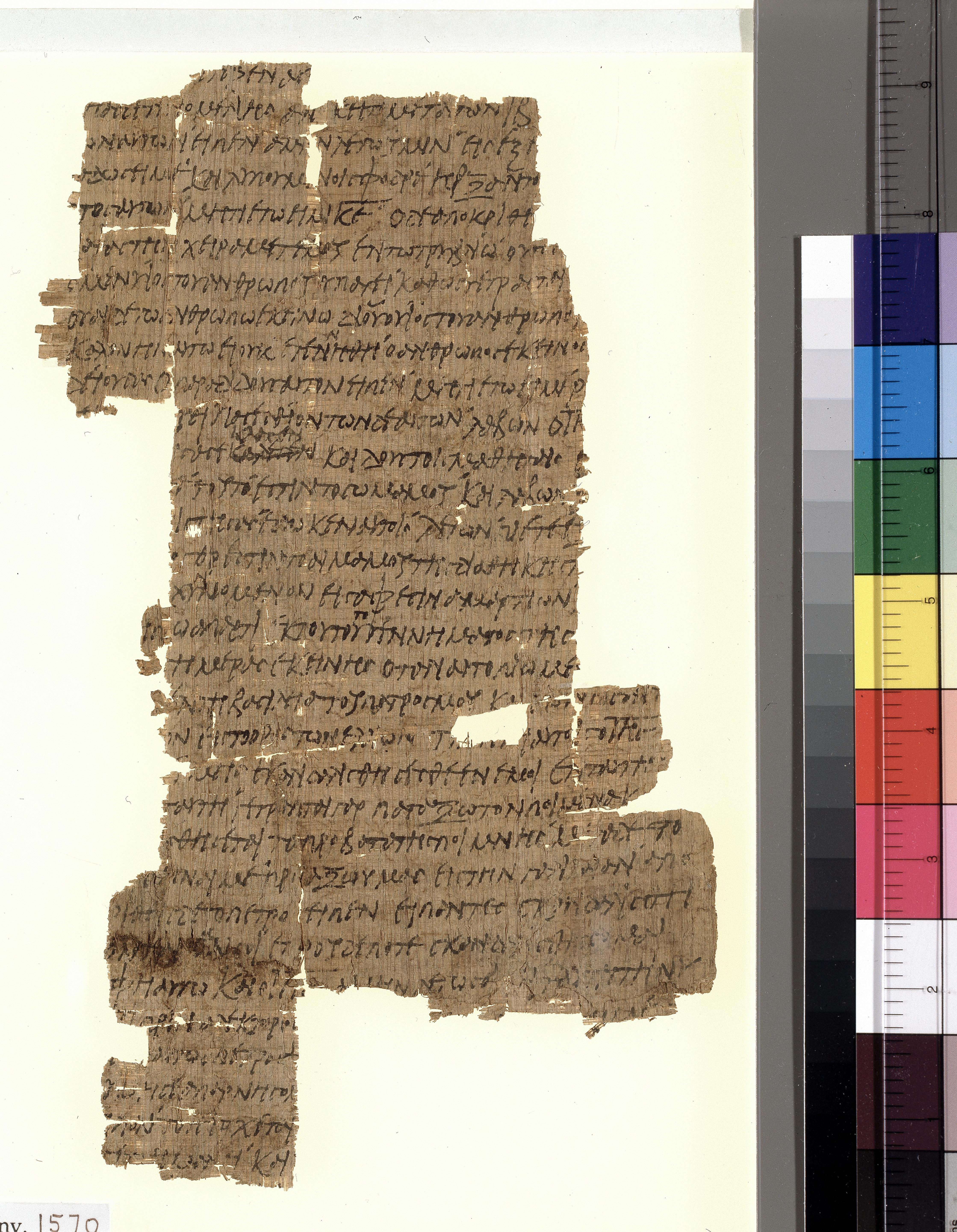 The front side of Papyrus 37, a New Testament manuscript of the Gospel of Matthew. Most likely originated in Egypt. Currently housed in